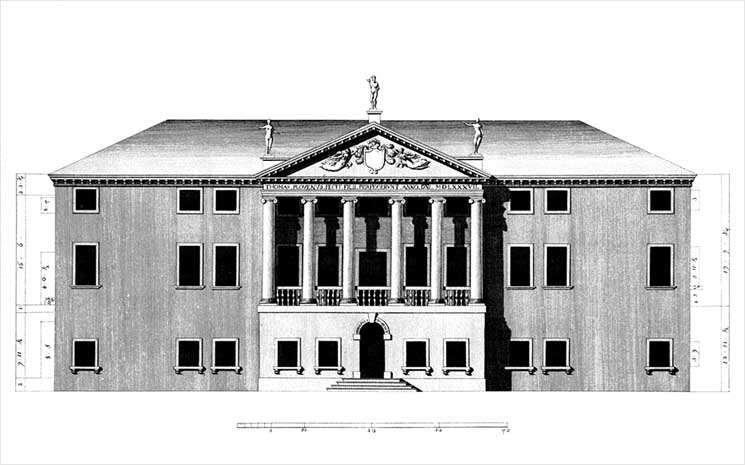 Villa Piovene in Lonedo di Lugo di Vicenza. Drawing from Ottavio Bertotti Scamozzi, 1778.